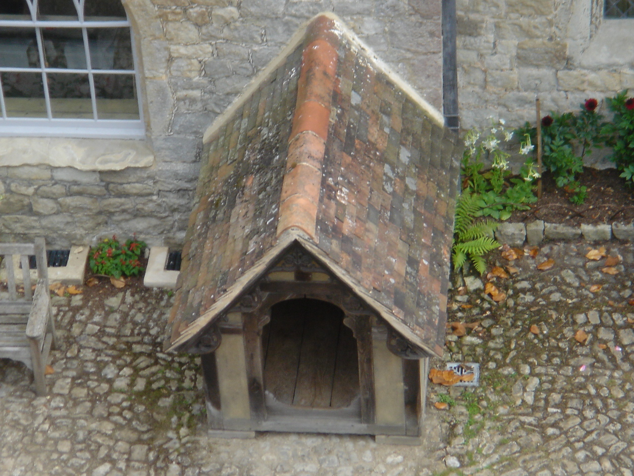 Grade 1 listed dog kennel at Ightham Mote